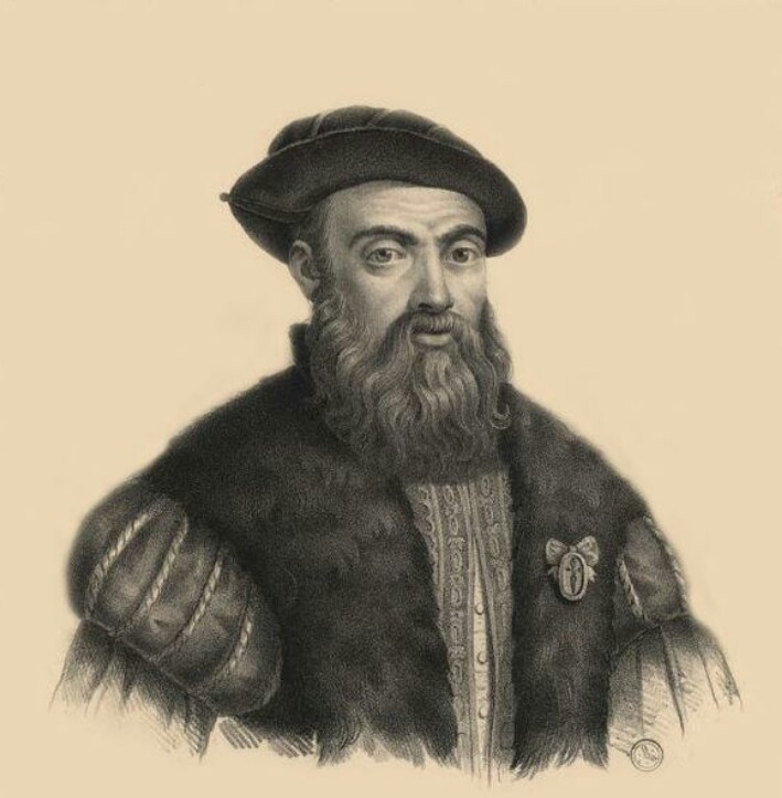 Francisco picture